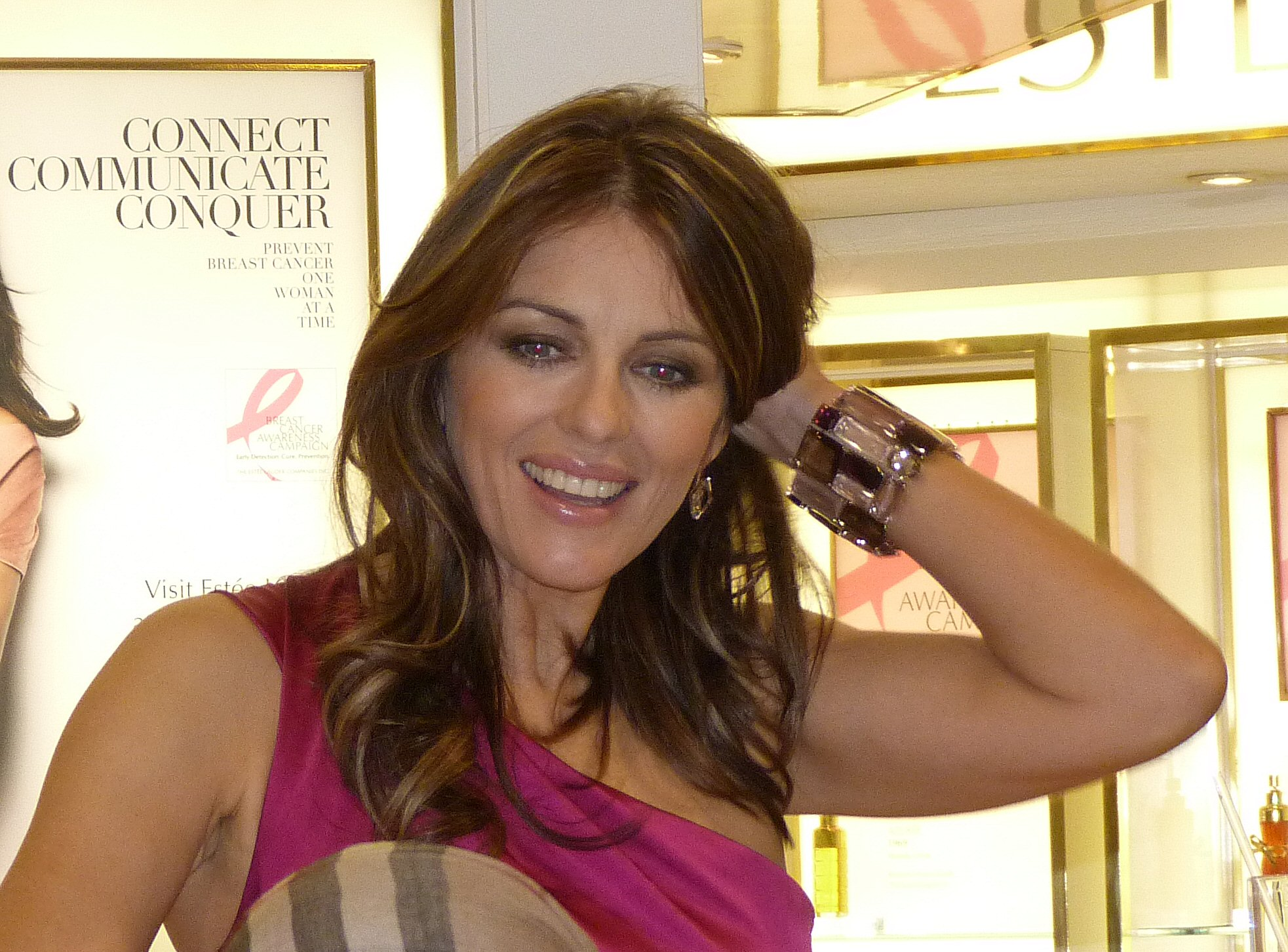 Liz Hurley, Harrods, London 19 October 2010